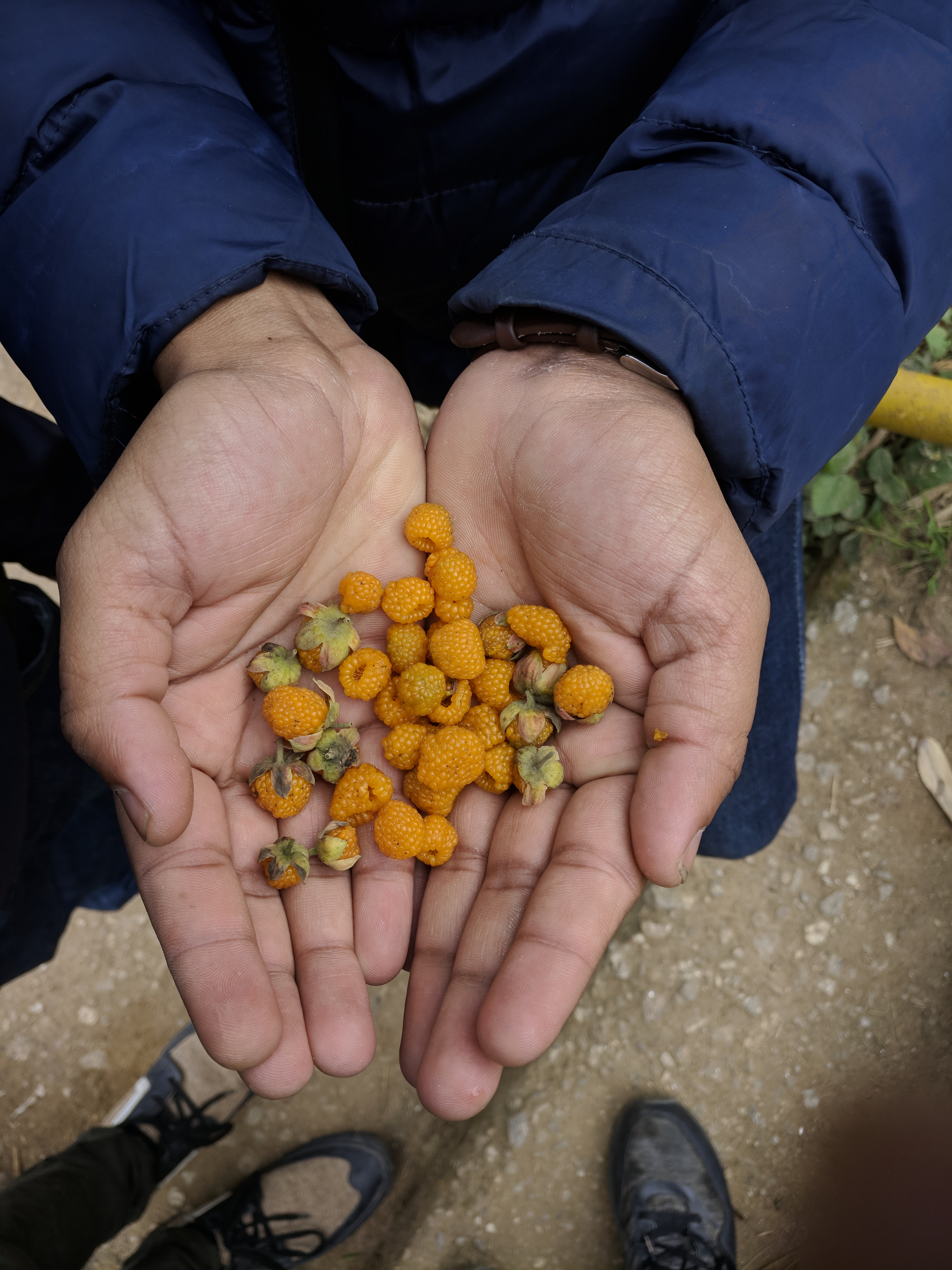 Golden Himalayan Raspberry also known as "Aaiselu" found in Illam, Nepal.